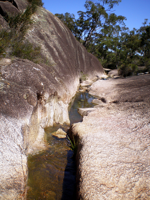 Morgan's Gully in Boonoo Boonoo National Park NSW Australia